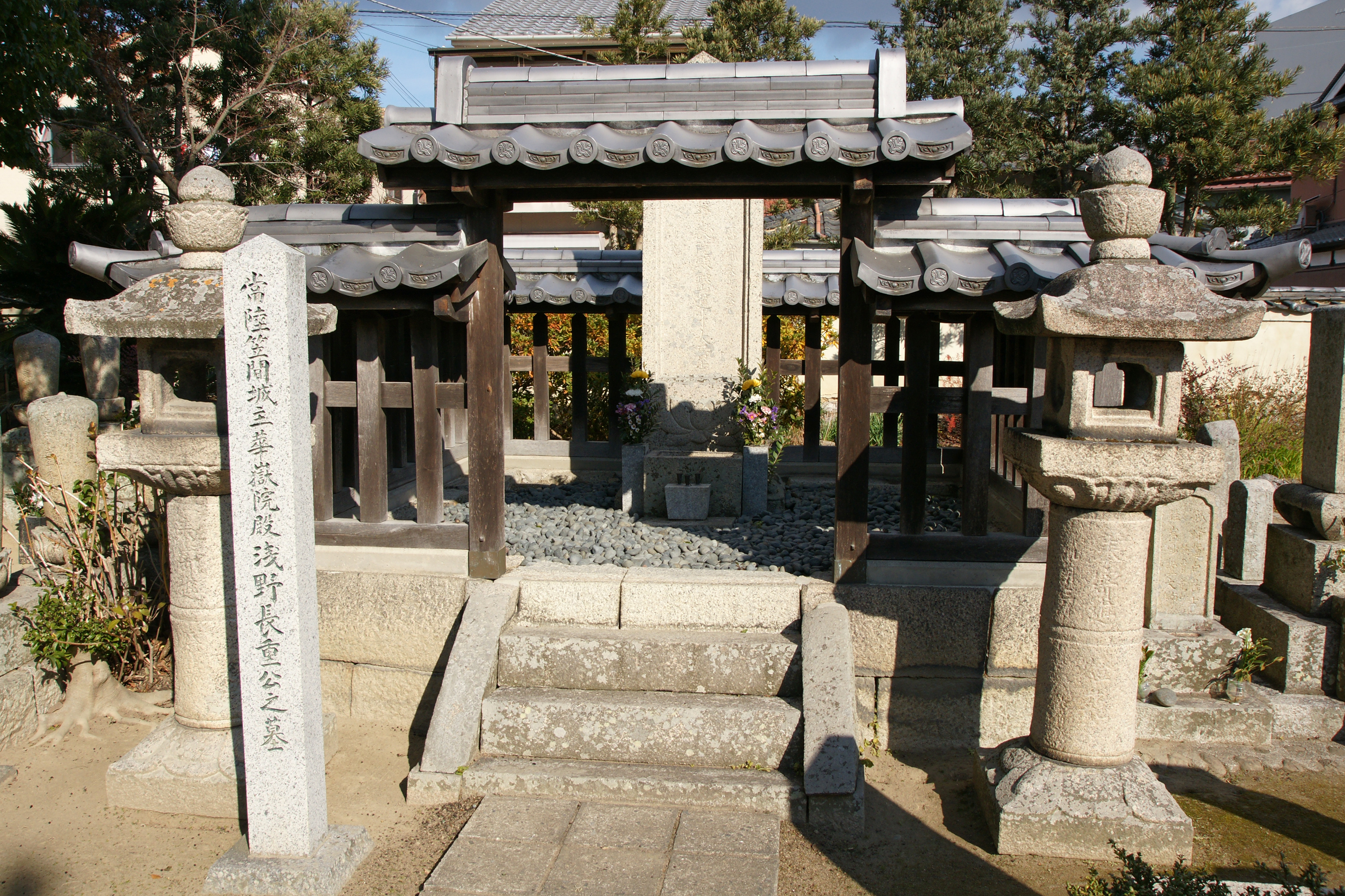 Kagakuji in Akō, Hyogo prefecture, Japan